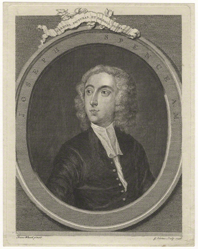 English historian Joseph Spence by George Vertue (1683-1756), after Isaac Whood (1688-1752); line engraving, engraved 1746 (9 1/4 in. x 7 1/4 in. (235 mm x 184 mm) plate size; 9 1/2 in. x 7 1/2 in. (241 mm x 191 mm) paper size); today in the National Portrait Gallery (NPG D7818).